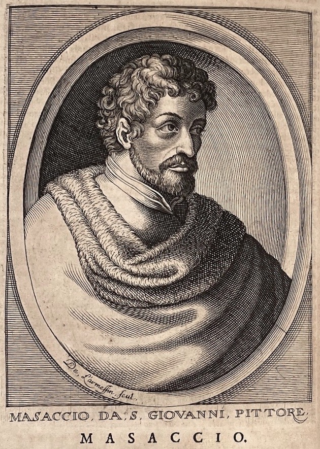 Half-length portrait of Masaccio, born Tommaso di Ser Giovanni di Simone, Florentine artist, engraved on a copperplate by Nicolas de Larmessin and printed in a book "Académie des Sciences et des Arts" written by Isaac Bullart and published in Amsterdam by Elzevier in 1682.